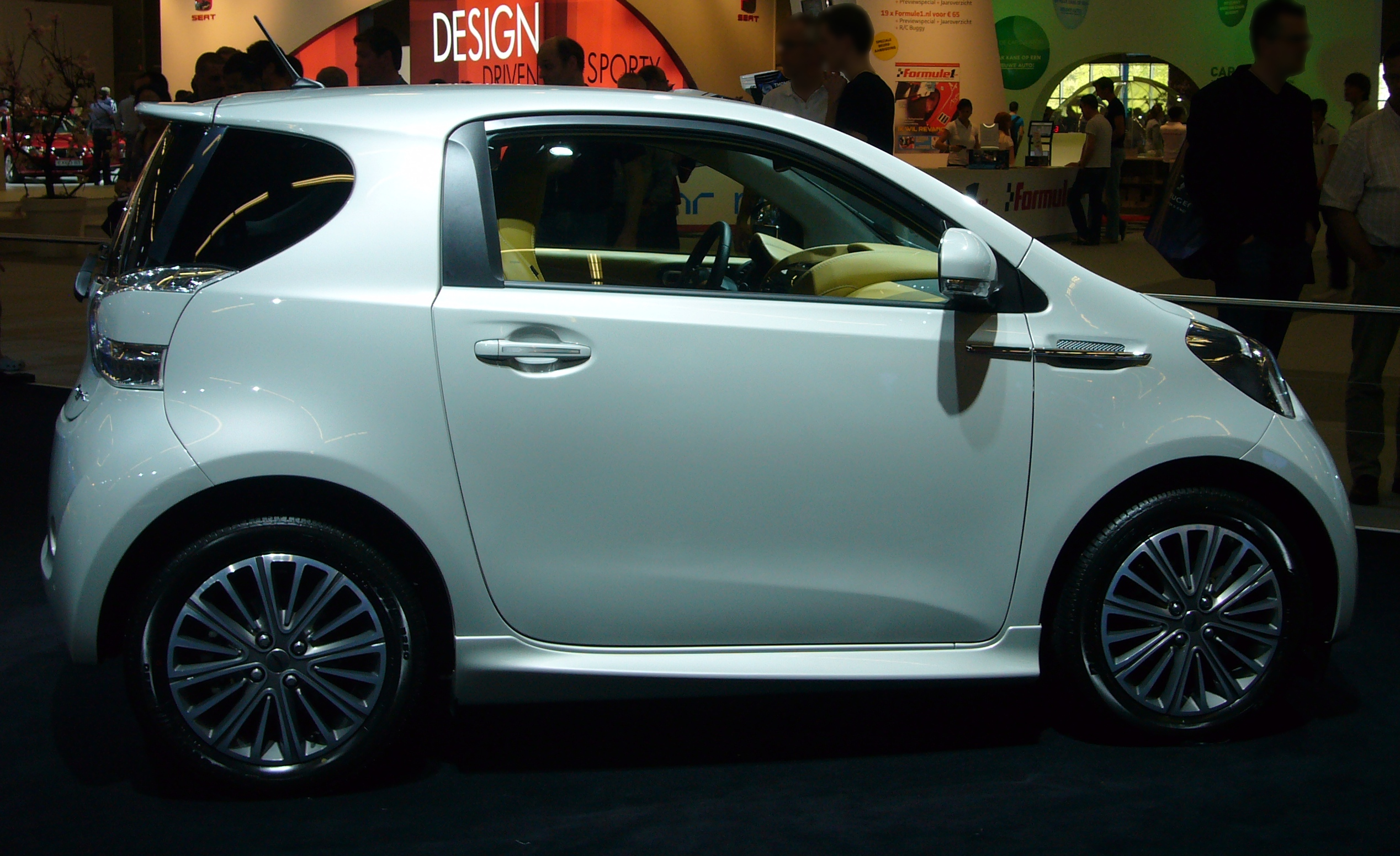 Aston Martin Cygnet at AutoRAI Amsterdam 2011